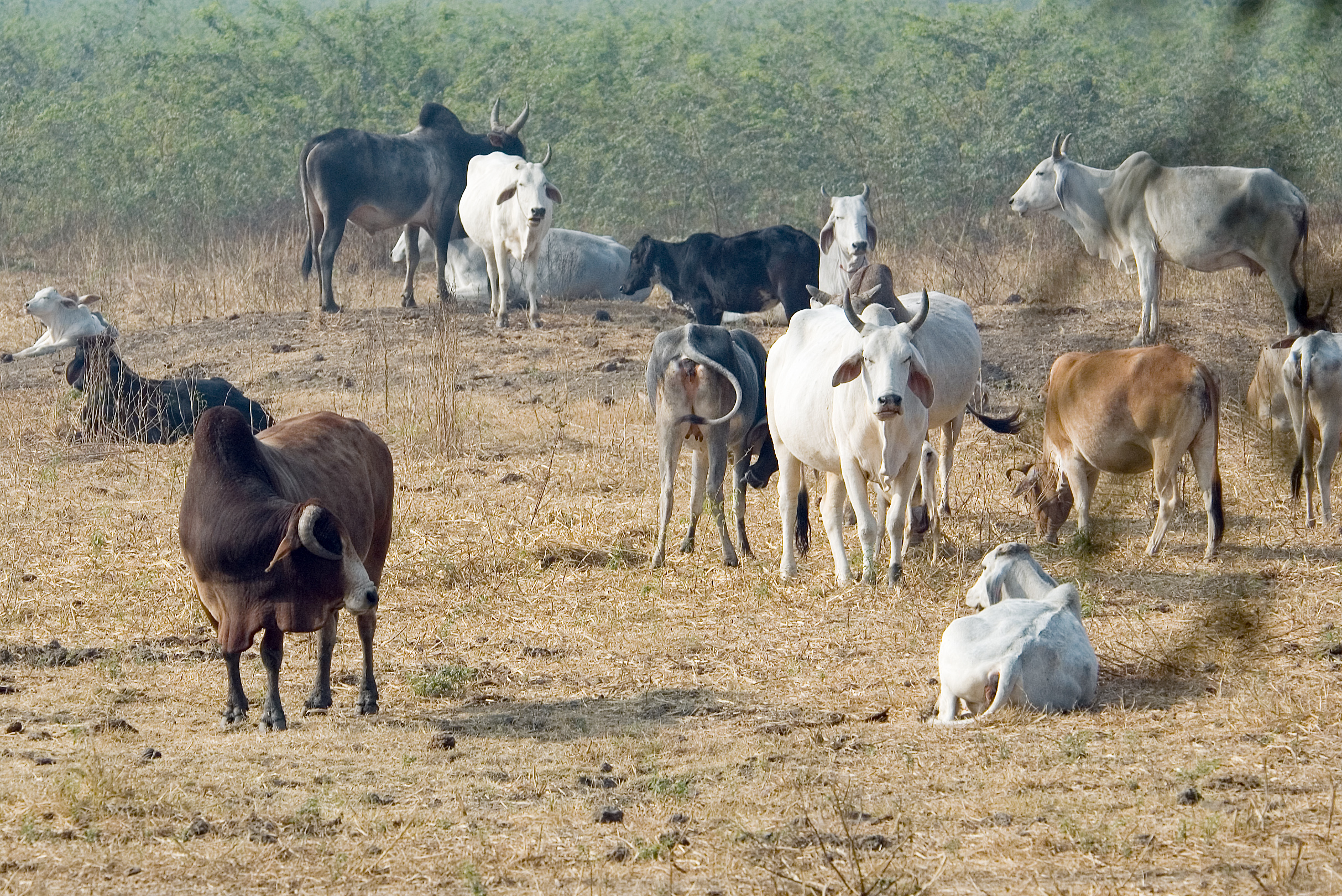 Feral cattle at Keoladeo Ghana National Park (Bharatpur), Rajasthan, Indien